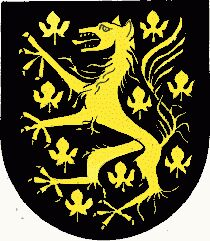 Coat of arms of Hartberg Umgebung, Styria